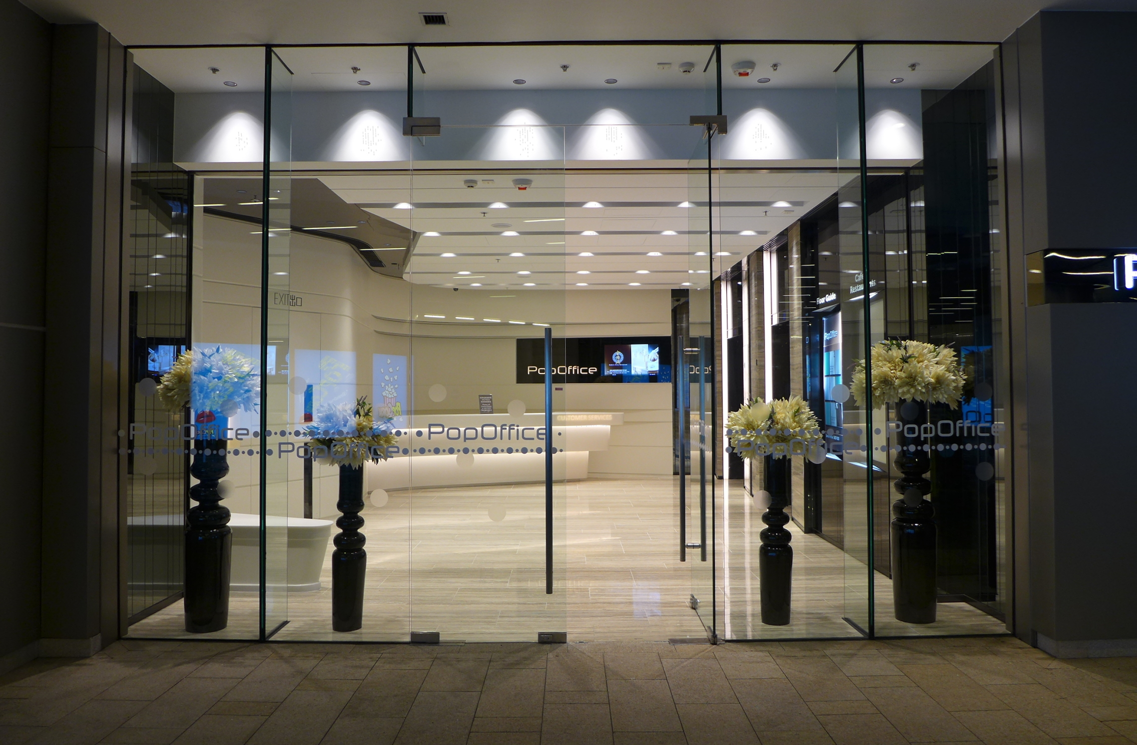 Tseung Kwan O PopOffice GF Entrance